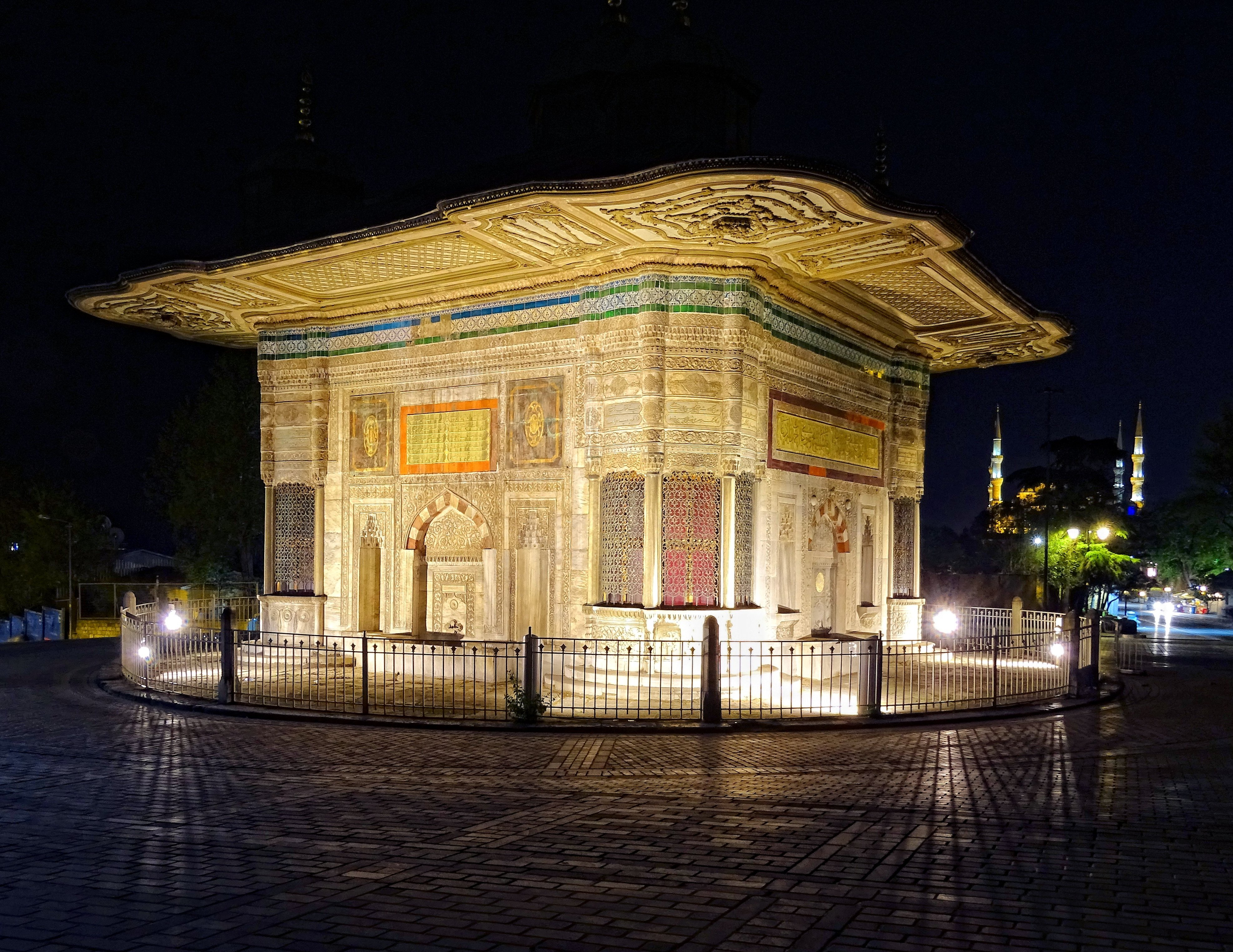 The Fountain of Sultan Ahmed III photographed at night from the east showing the Blue Mosque in the distance.